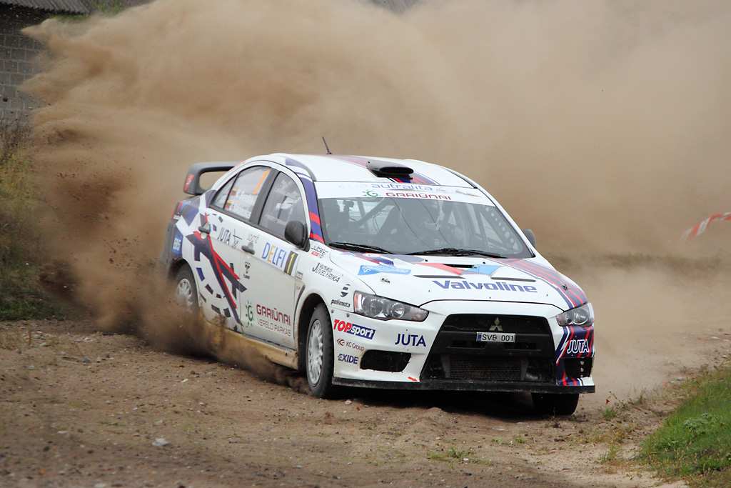 Rally driver Vytautas Švedas, Mitsubishi Lancer Evolution X